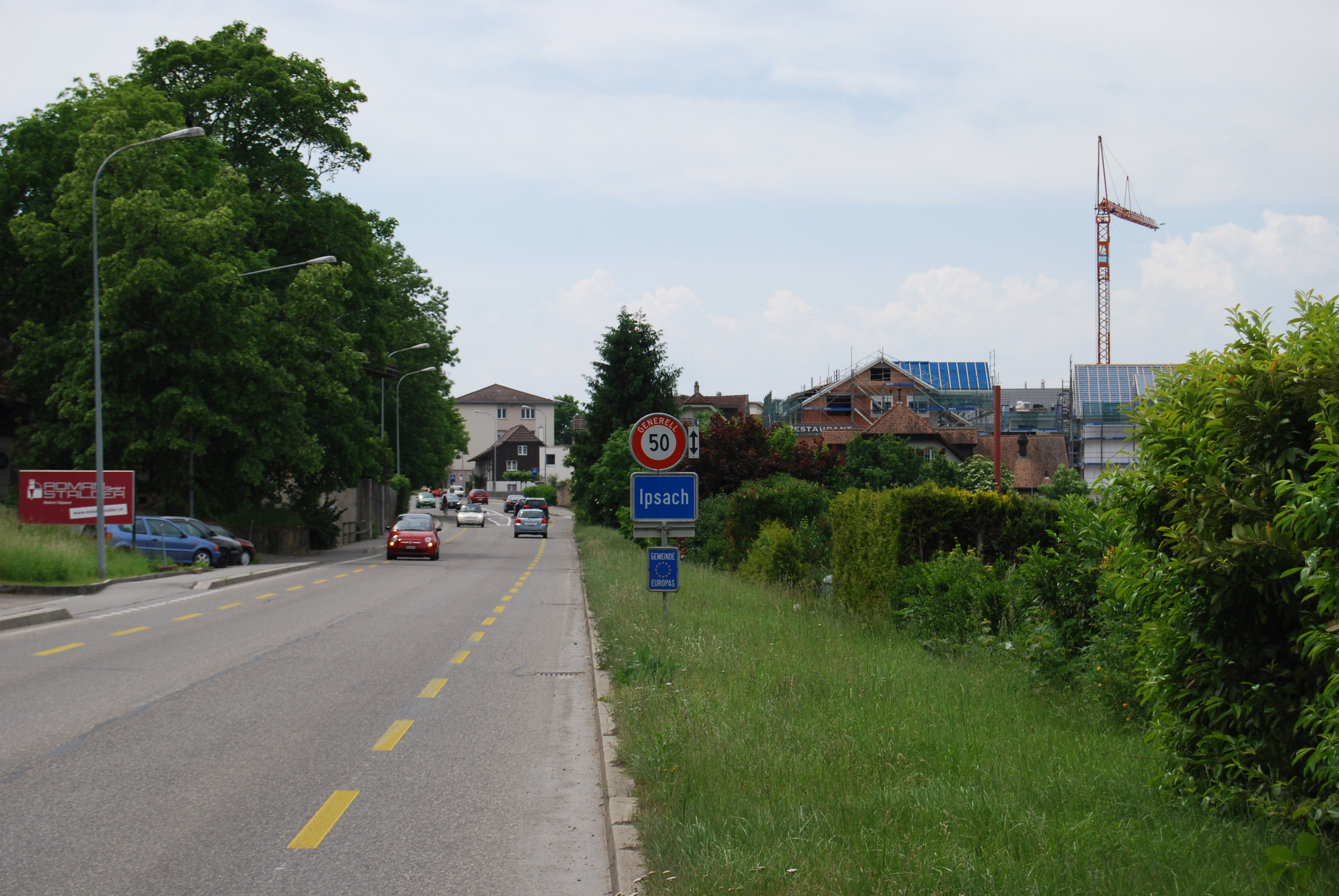 Ipsach, canton of Bern, SwitzerlandEsperanto: Ipsach, Kantono Berno, Svislando